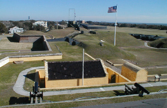 Fort Moultrie National Monument, Carleston, South Carolina